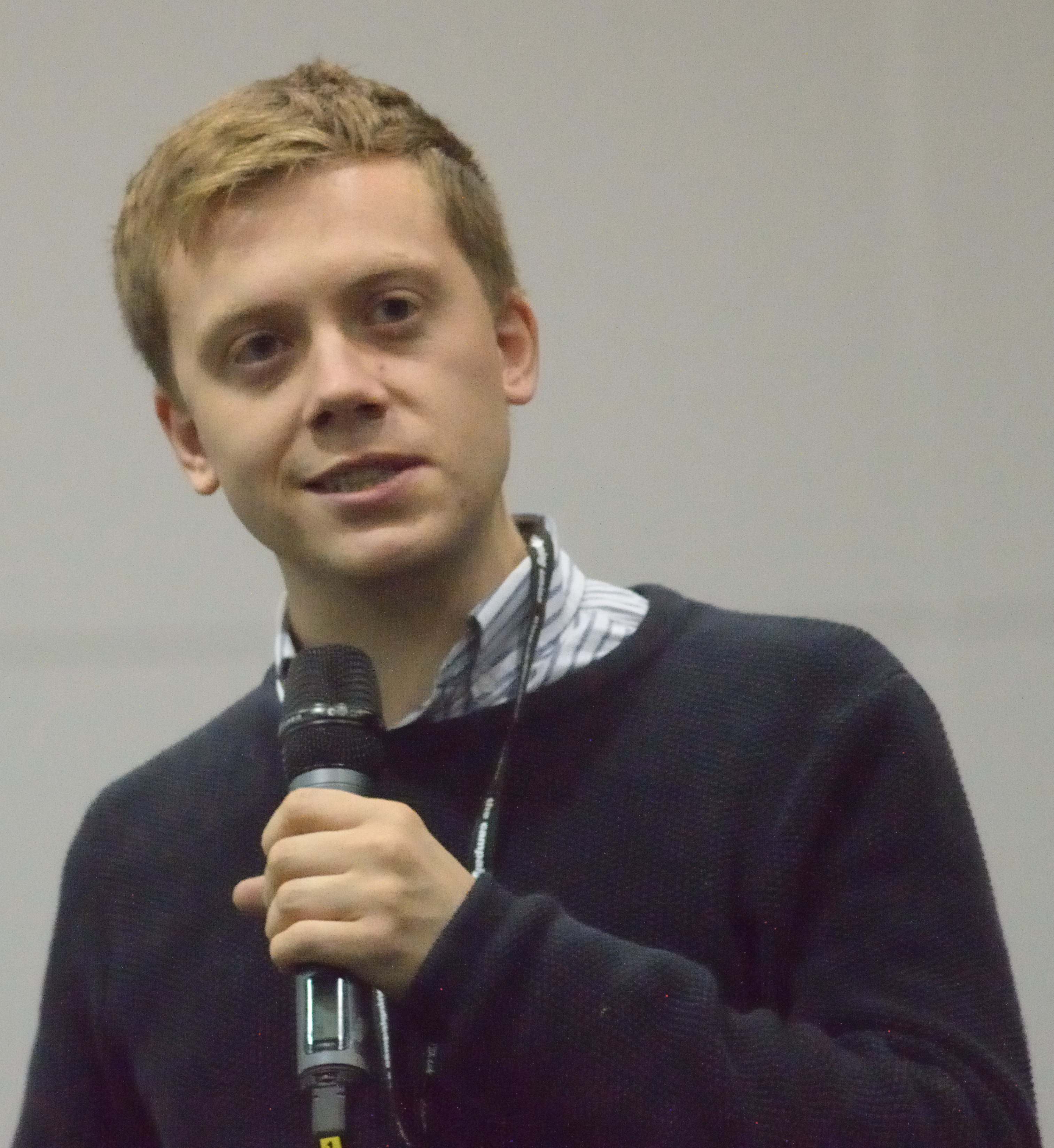 Owen Jones at the 2016 Labour Party Conference in Liverpool, speaking at a fringe meeting organised by Labourlist.